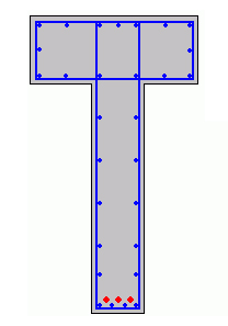 Reinforeced condrete beam scheme